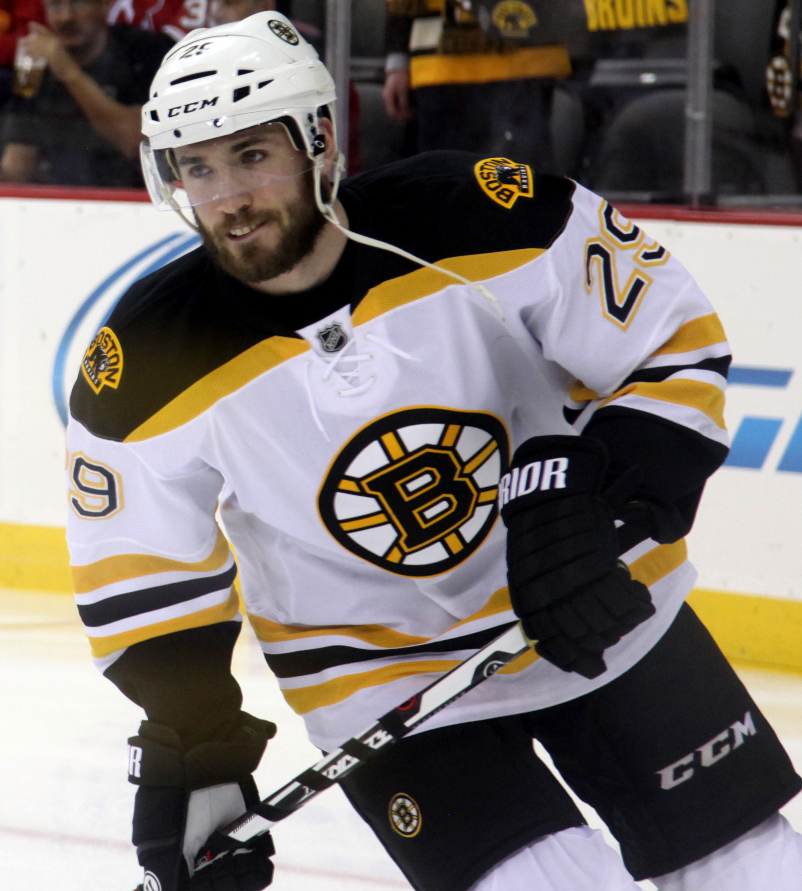 Ferraro in January 2016.